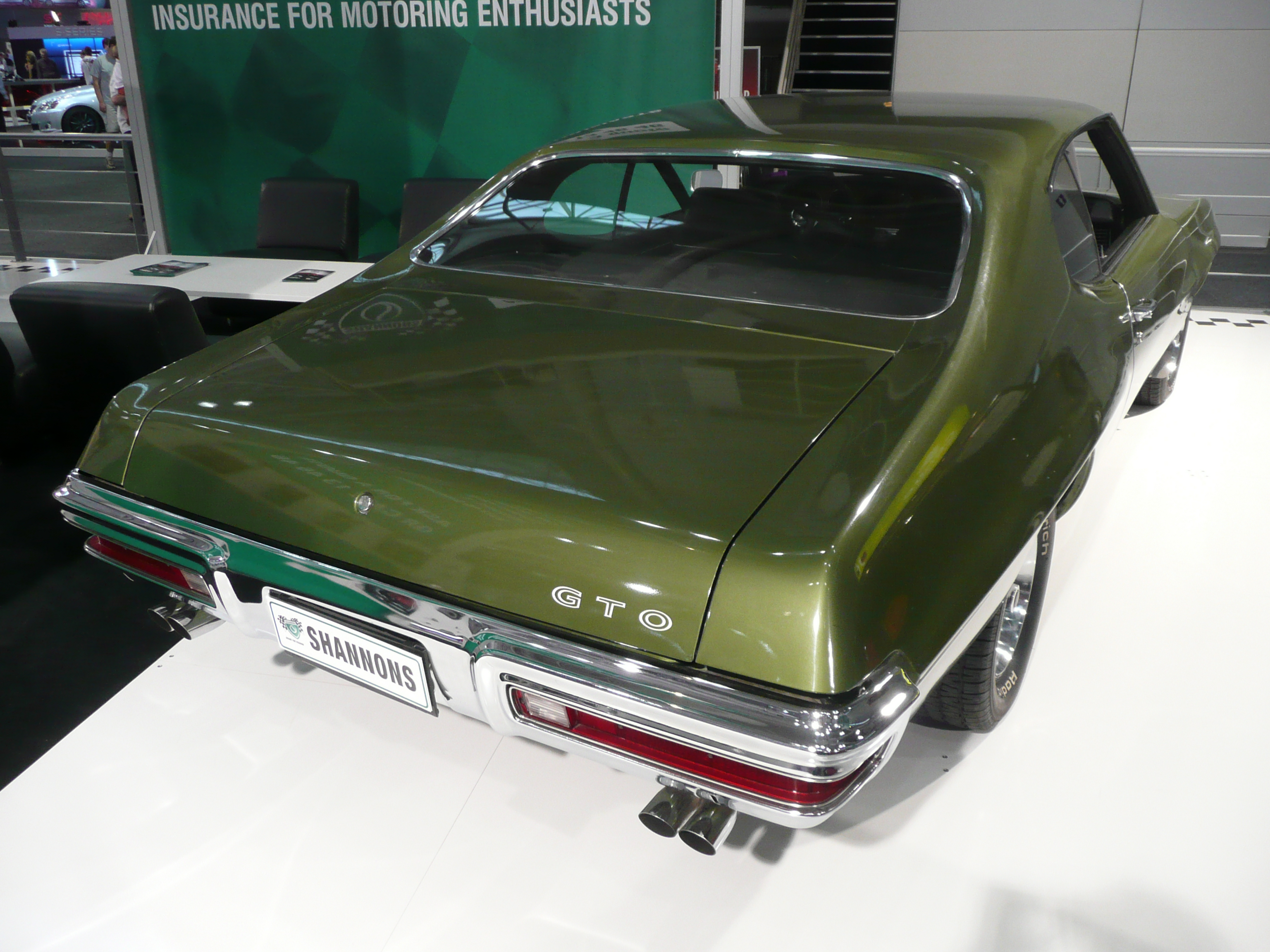 1970 Pontiac GTO 400 CI coupe. Photographed at the 2008 Australian International Motor Show, Sydney, New South Wales, Australia.